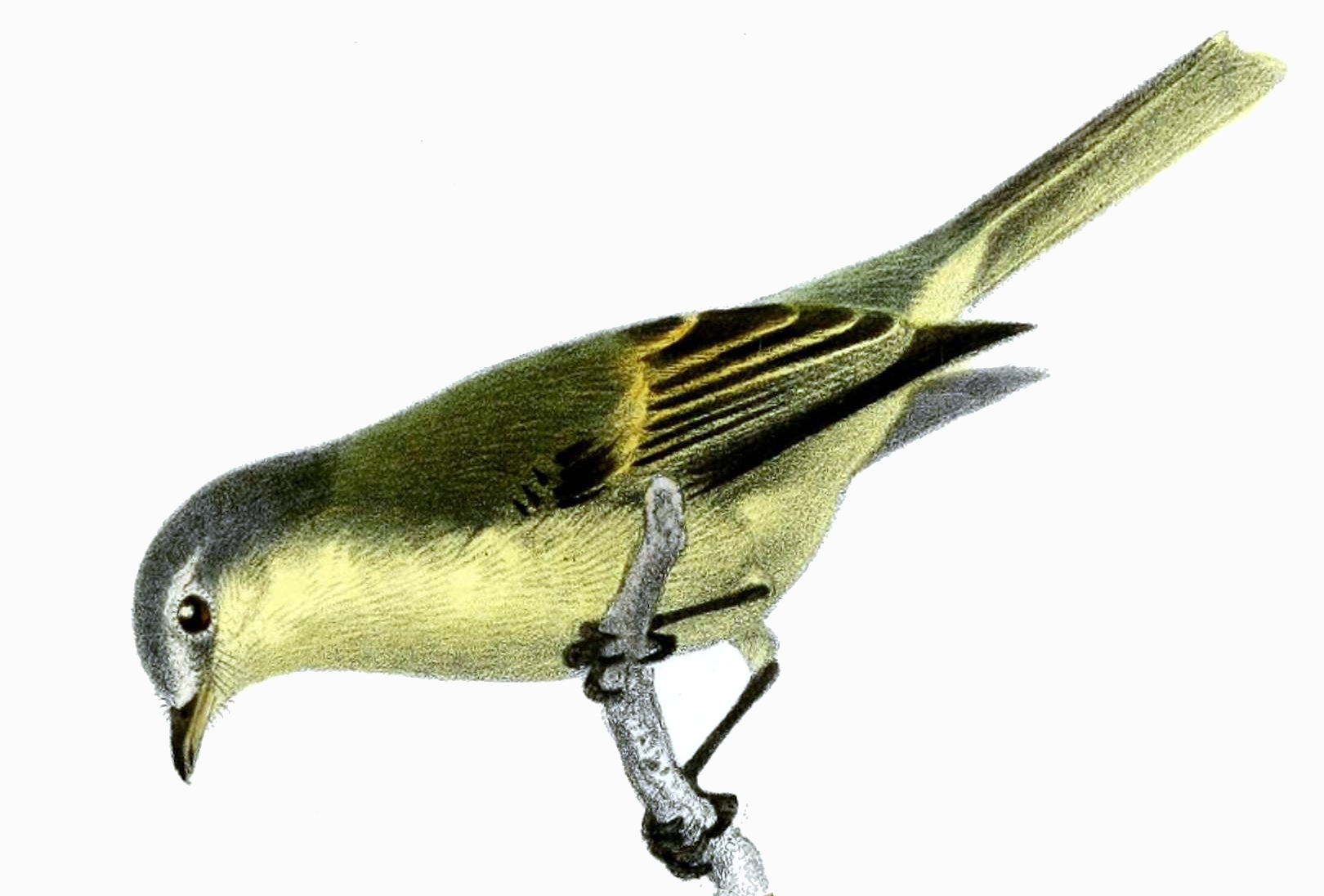 White-fronted Tyrannulet